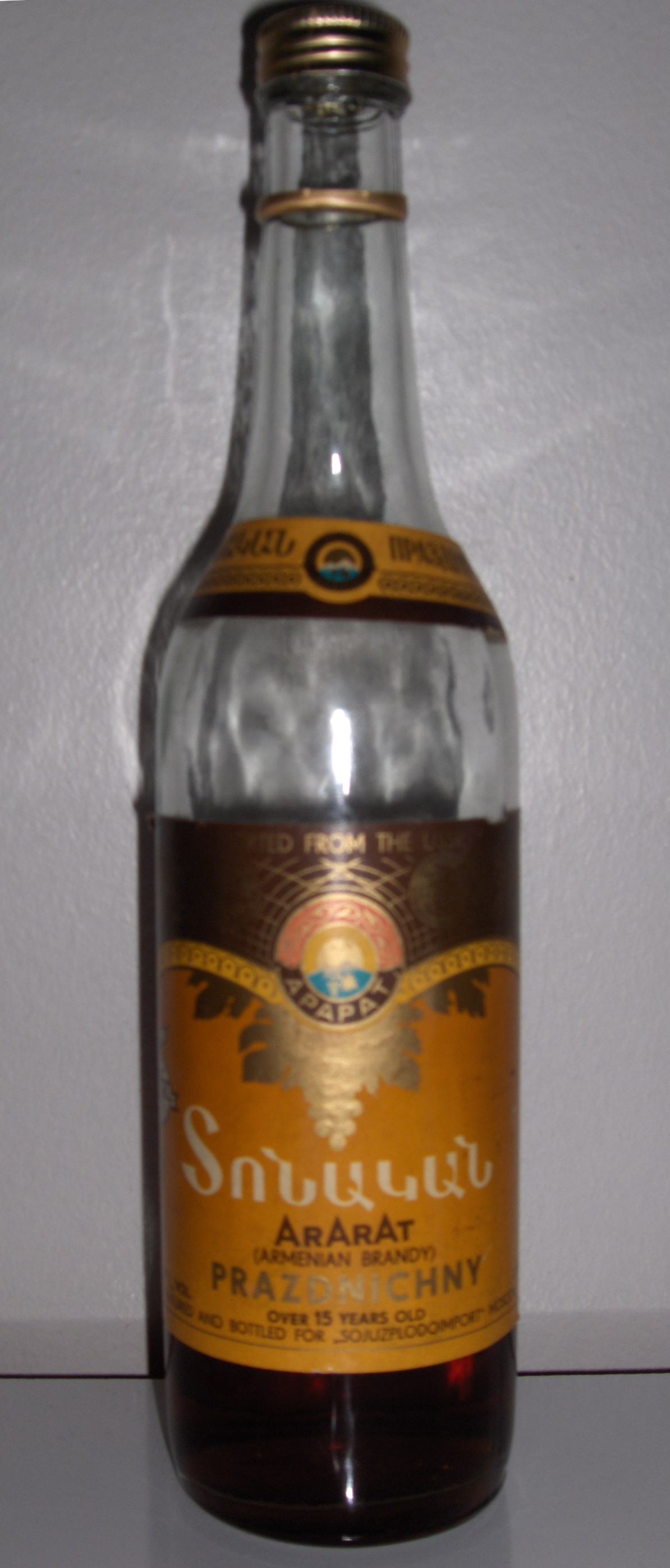 Armenian brandy - Ararat Donagan